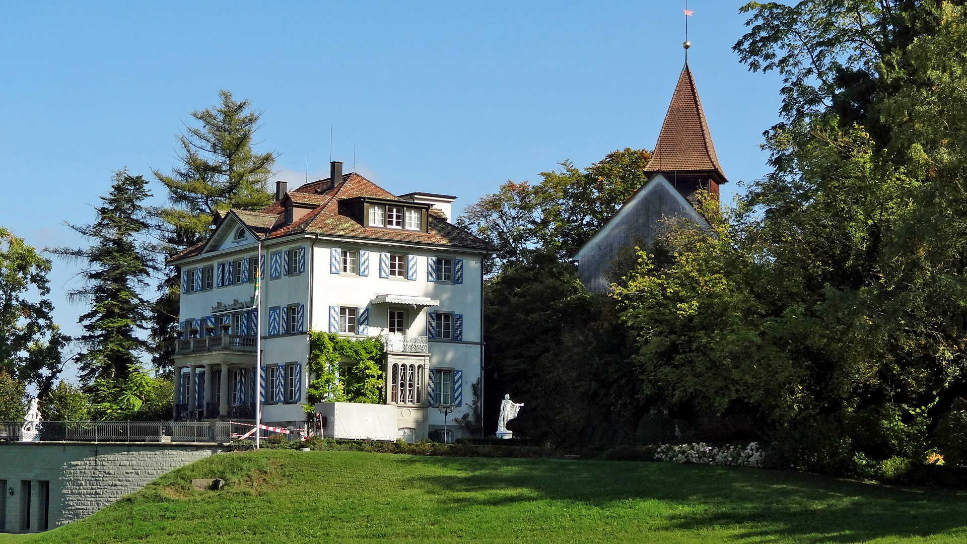 Louisenberg Castle and Saint Aloysius Chapel in Mannenbach, Switzerland